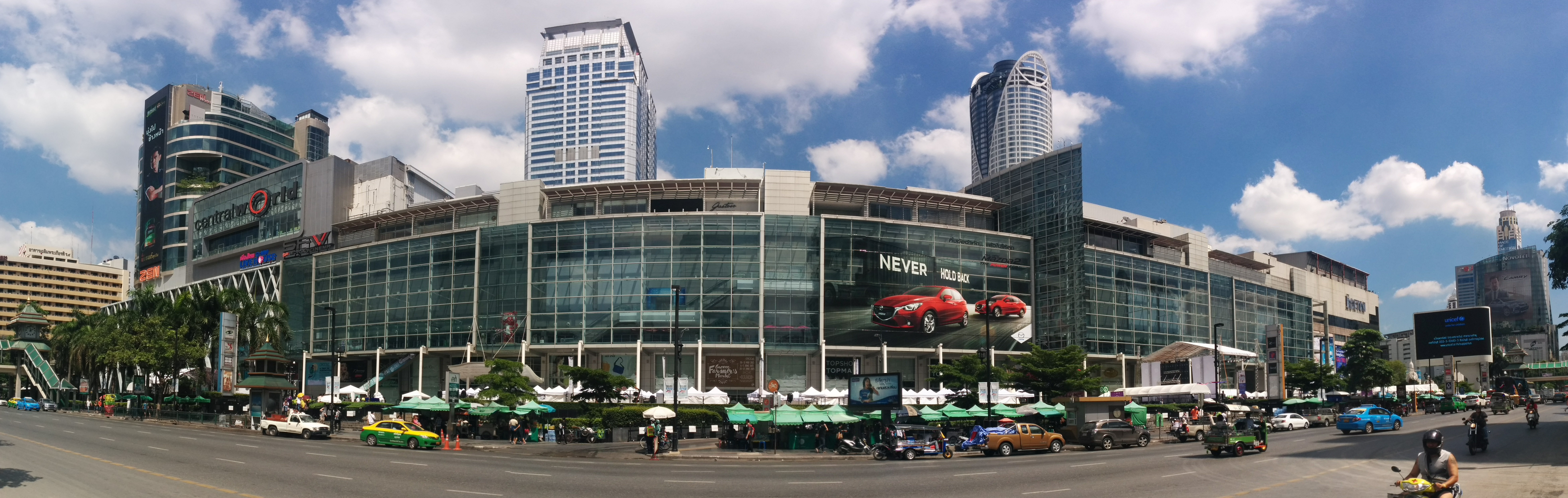 overview of CentralWorld